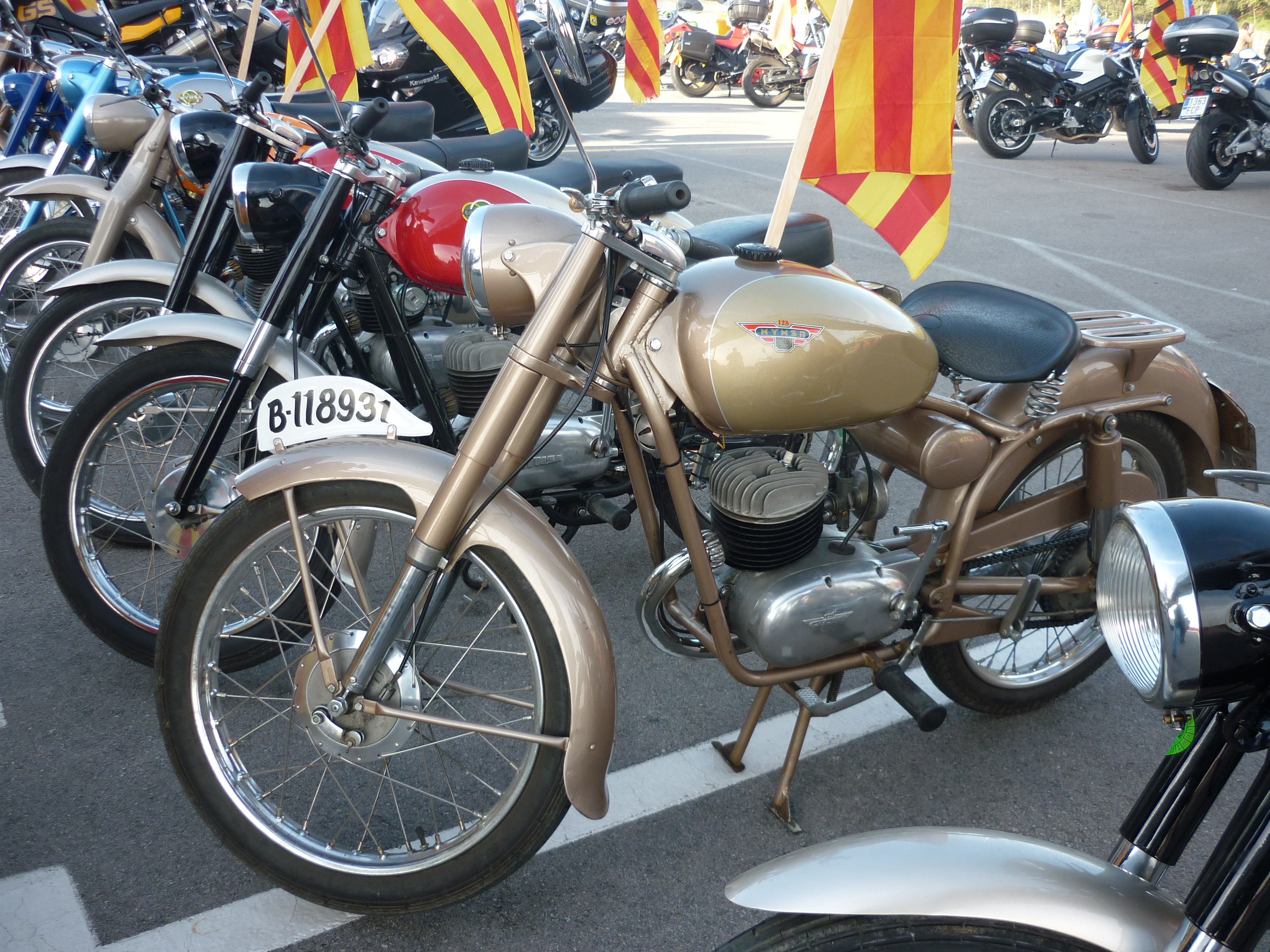 A 1955 125 A-1 2nd series Mymsa motorcycle during the Motorada per la Independència at Circuit de Catalunya (19/10/2014)